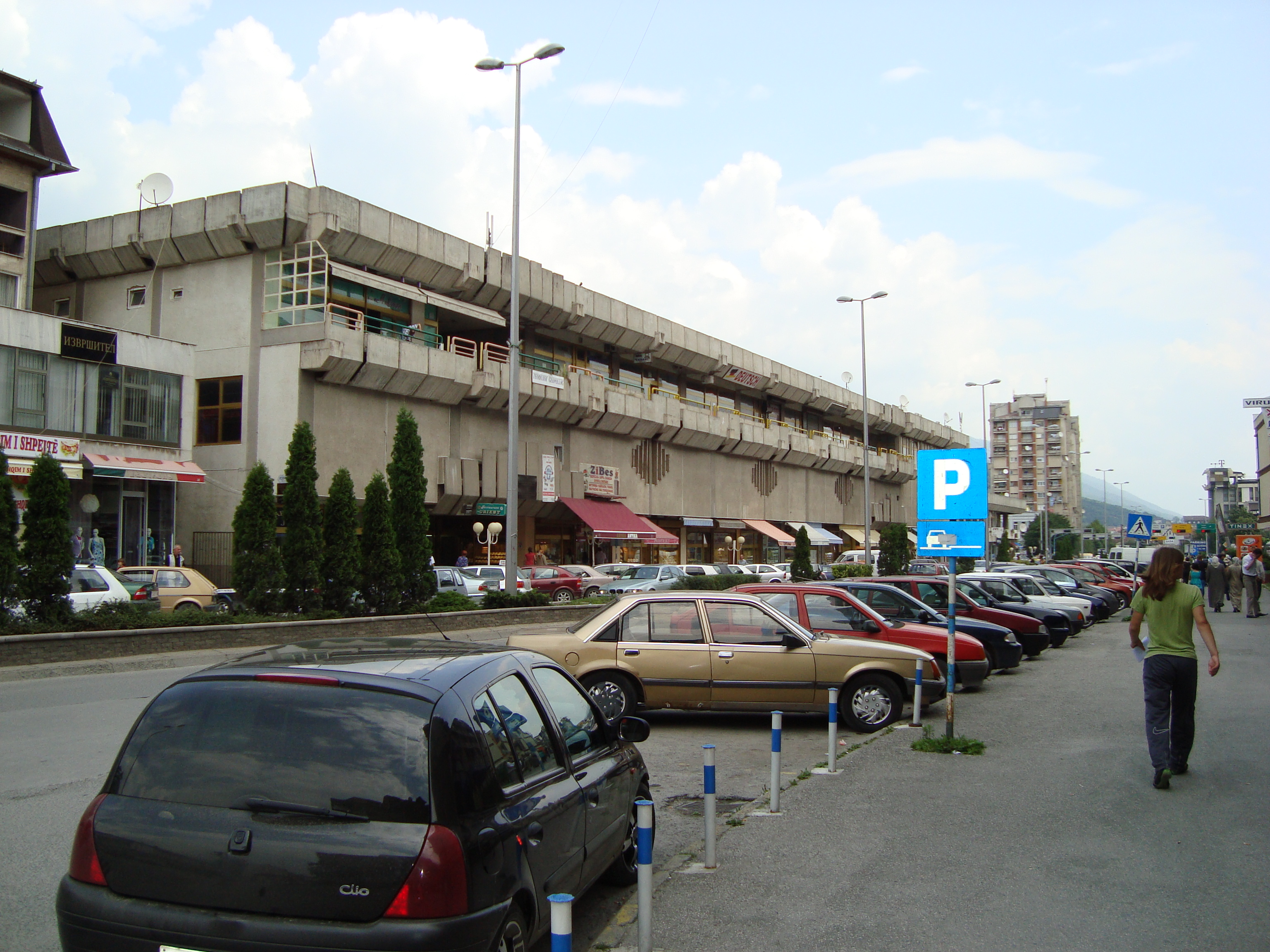 The trading centre in Tetovo, Macedonia.